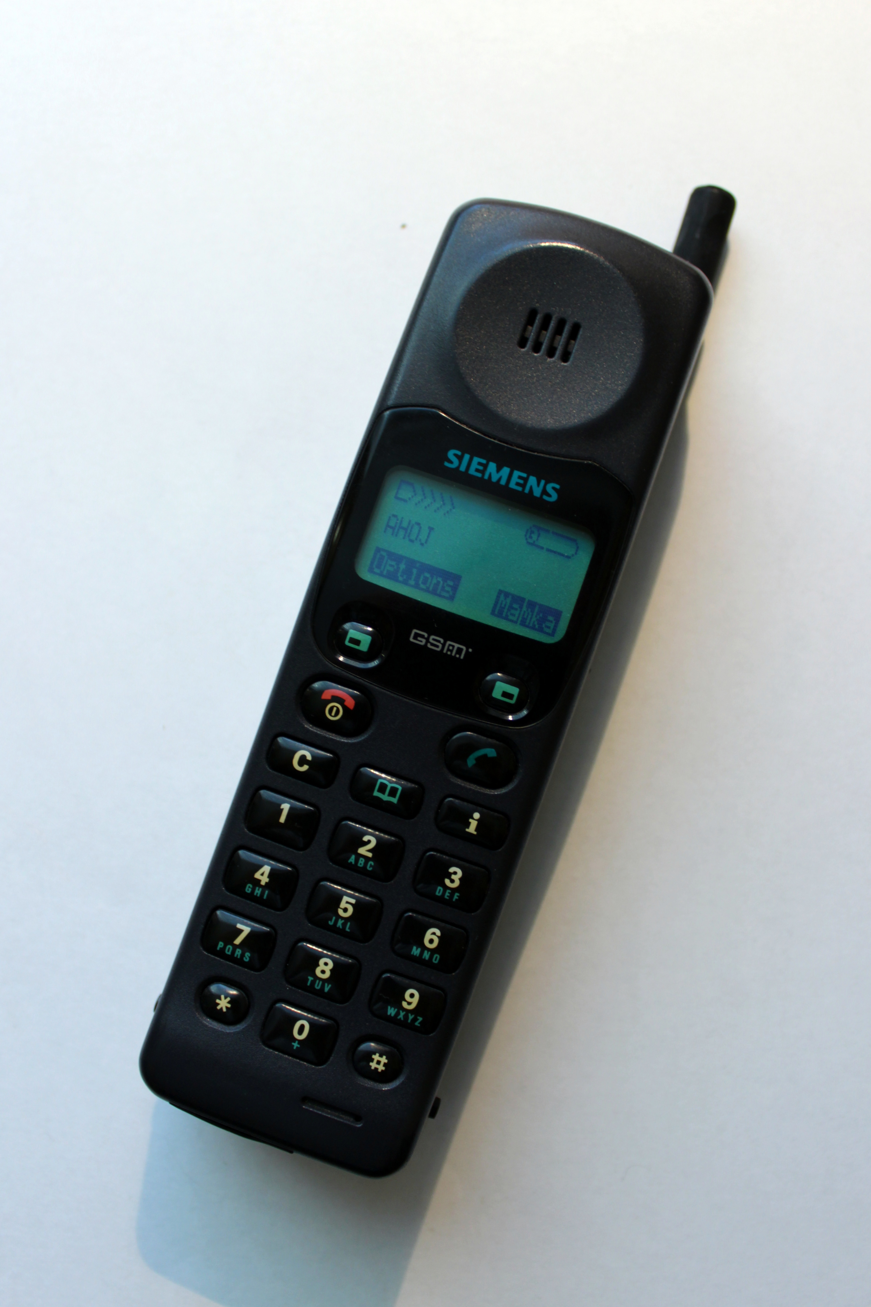 Mobile phone Siemens S4